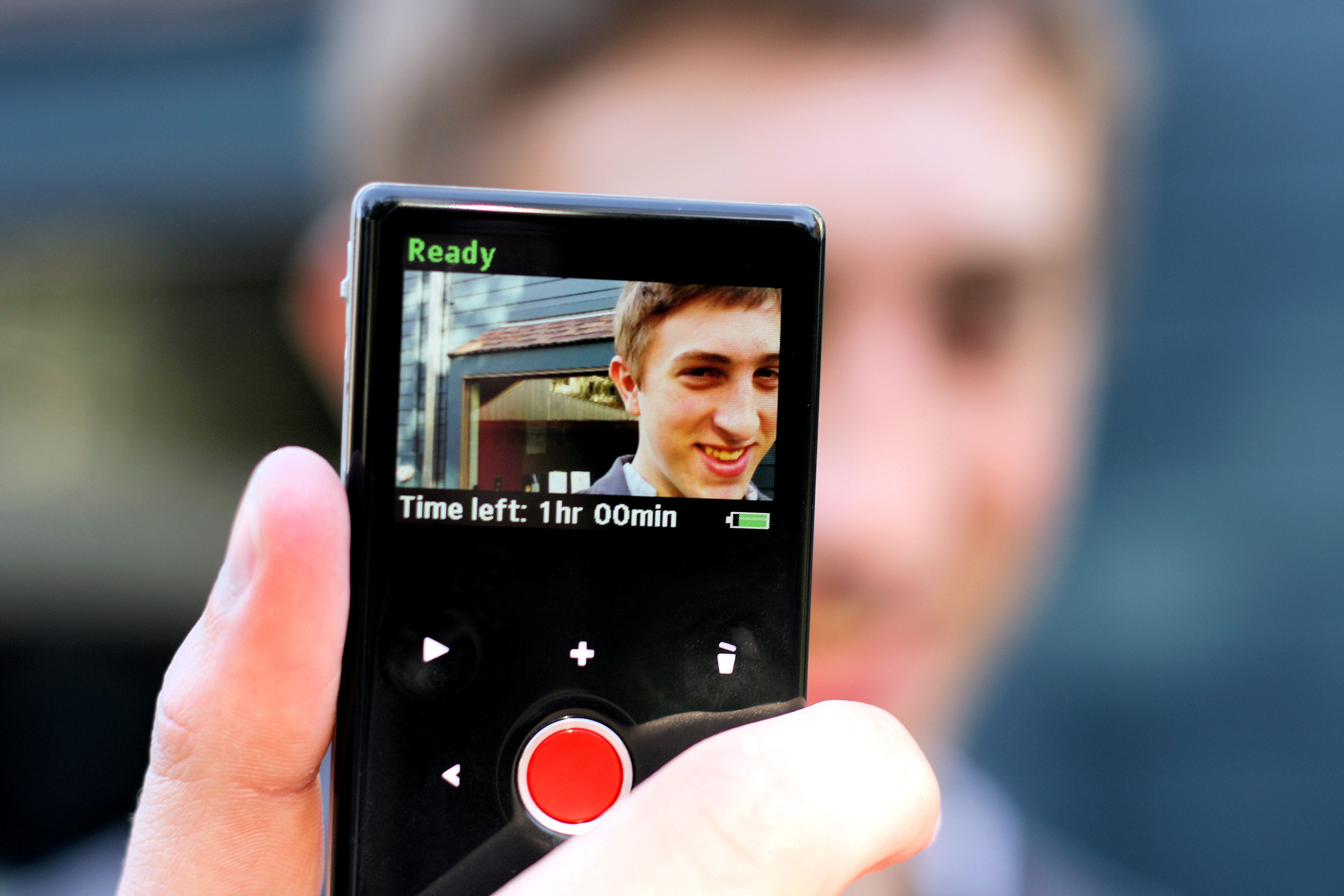 The rear LCD display on a Flip Video camera